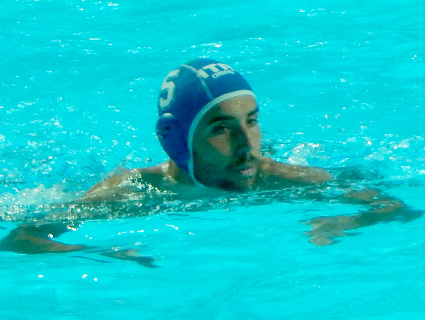 The bronze medal match between Team Greece and Team Italy. All photos have been taken from the photographers sector. I was simply usual visitor but my ticket was to non-existent seats, therefore I was moved to that sector. All good photos I upload to WikiCommons for free use.